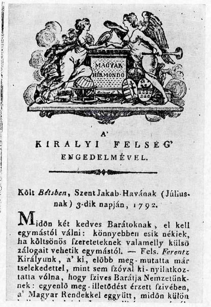 The cover page of the 18th century Hungarian newspaper, Magyar Hírmondó (Hungarian News); often called as Viennese News, because another newspaper existed in Pressburg (today Bratislava) with the same name. This is the issue from 3rd July 1792. Editors of the newspaper were Demeter Görög and Sámuel Kerekes.